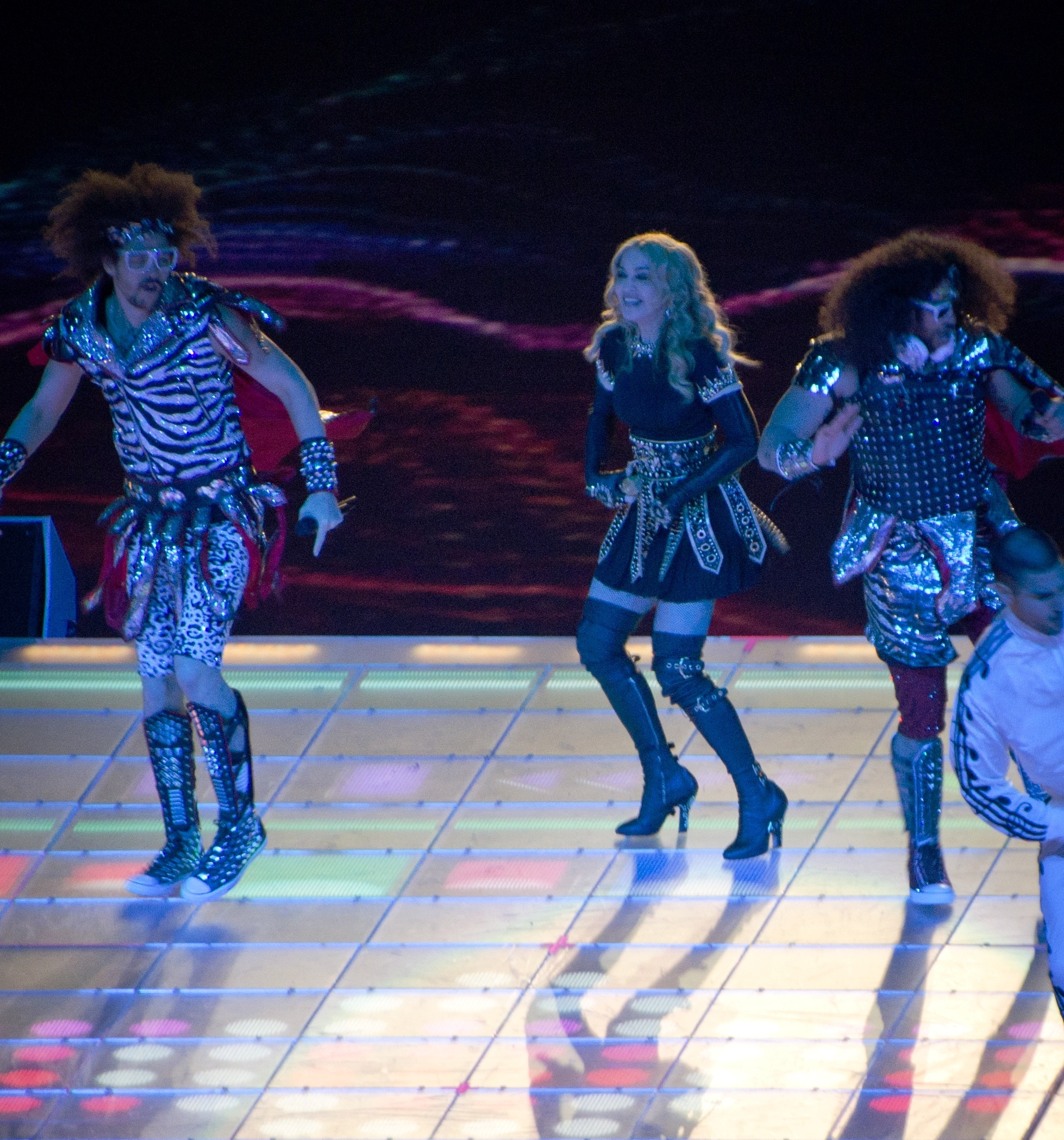 Madonna and LMFAO in Super Bowl, cropped image